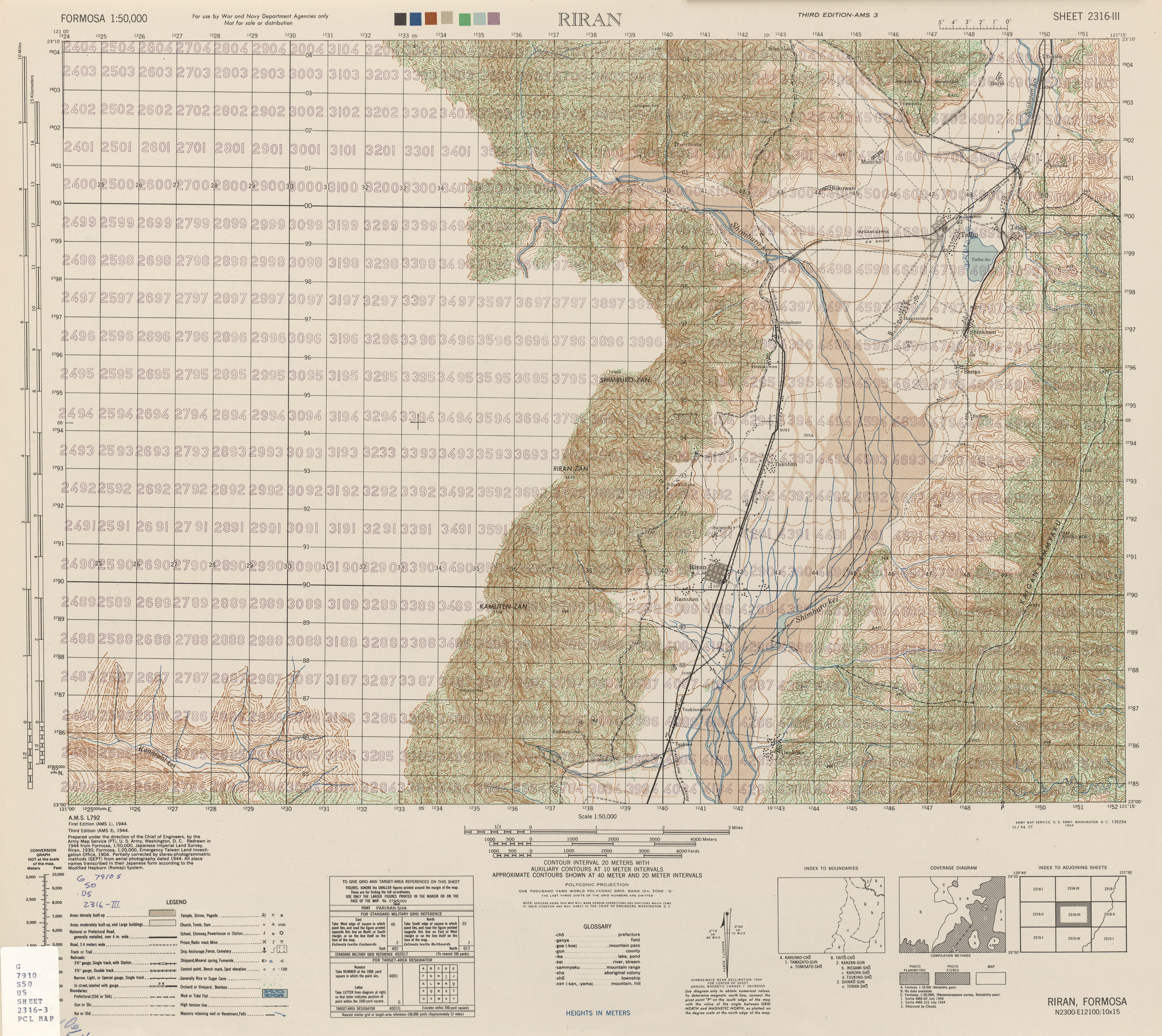 Map from Formosa (Taiwan) 1:50,000 AMS Series L792